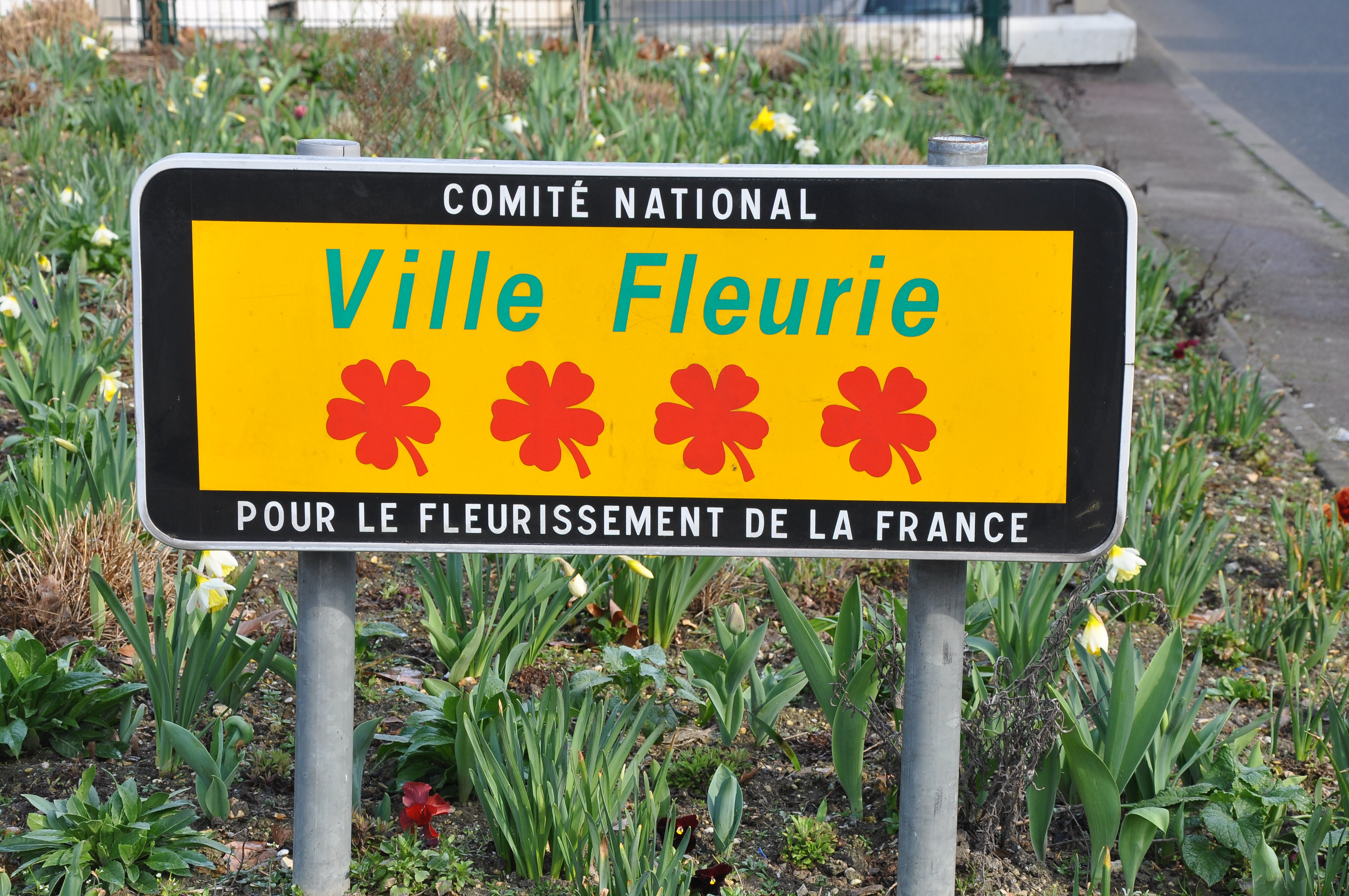 The supreme distinction of Four Flowers in the Competition of cities and flowery villages awarded in Le Vésinet Yvelines department, France.